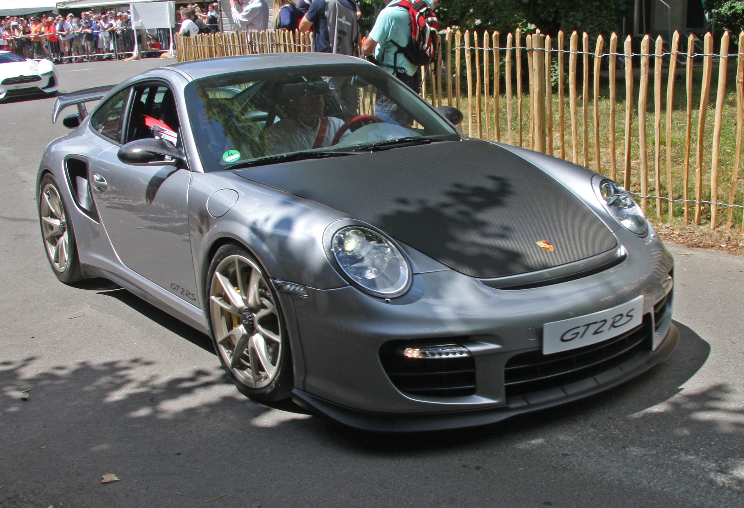 Silver Porsche 997 GT2 RS at the 2010 Goodwood Festival of Speed.Porsche GT2 RS